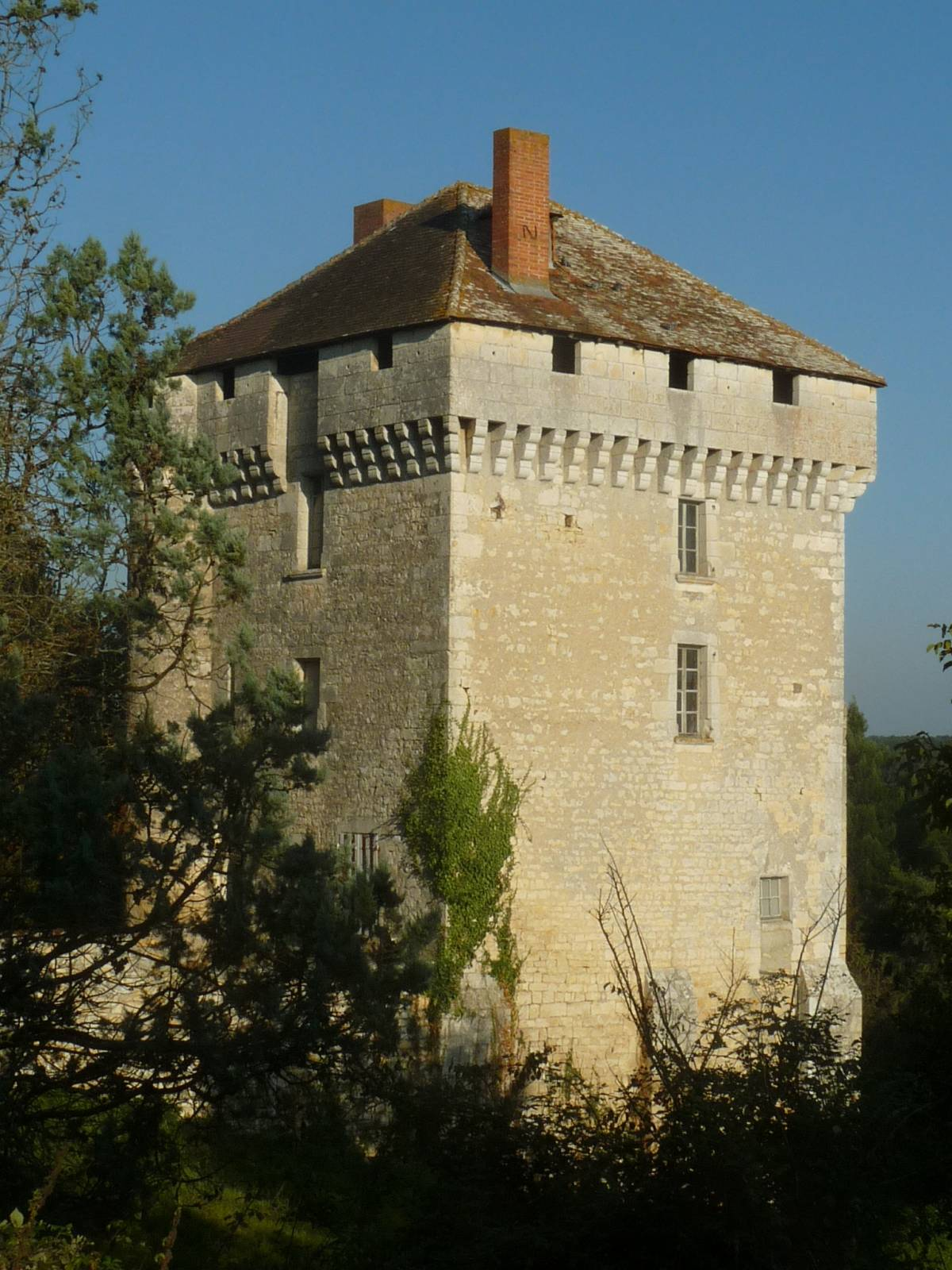 castle of Les Pins, Charente, SW France